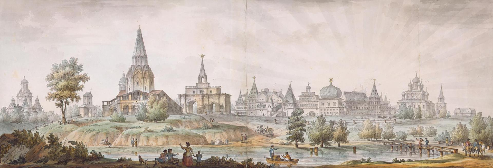 Panorama of the Villages of Kolomenskoye and Dyakovo. 1797. Landscape, Drawings, Pen, brush, Indian ink and watercolour, 42.2x114.5 cm. The Series Views of Moscow and its Environs. State Hermitage, Source of entry: acquired from K. Saunders, 1857